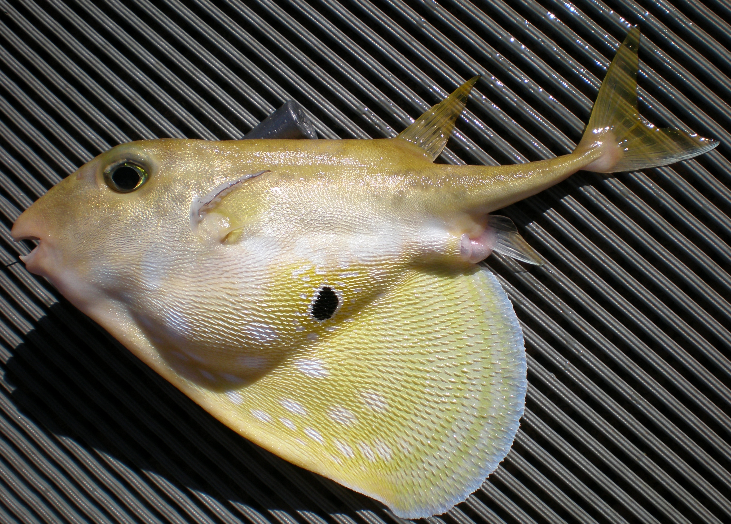 Triodon macropterus. Very fresh fish, just caught. Locality: Off Récif Toombo, off Nouméa, New Caledonia, depth 200-350 m, 22°34' 565S, 166°27'636E. Fork Length 361 mm, Weight 689 grams. Date 2009-07-02.